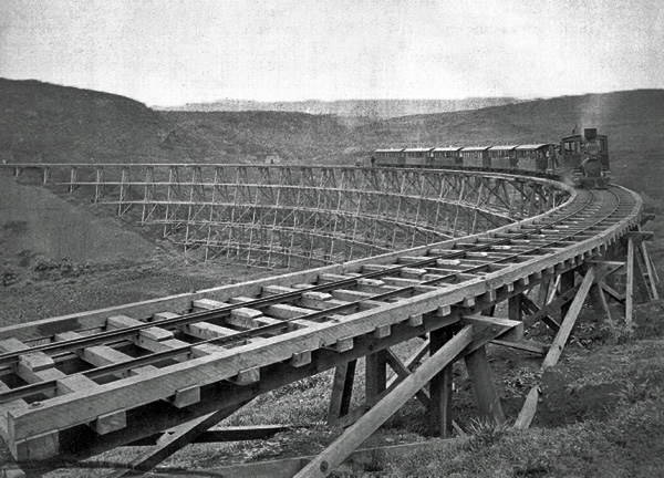 The Hawaiian Railroad was built from 1881 to 1883. It extended from the port of Mahukona to the Niulii plantation in the north Kohala district. It was bought out in 1899, and shut down in 1945. The terminus is now a county park.